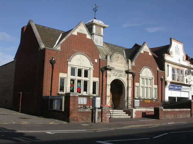 Springbourne Public Library, Holdenhurst Road A fine Edwardian public library: symmetric, stone and brick-clad. Note the carved stone coat of arms above the entrance, flanked by obelisks. Part of a pleasant Victorian/Edwardian street scene.